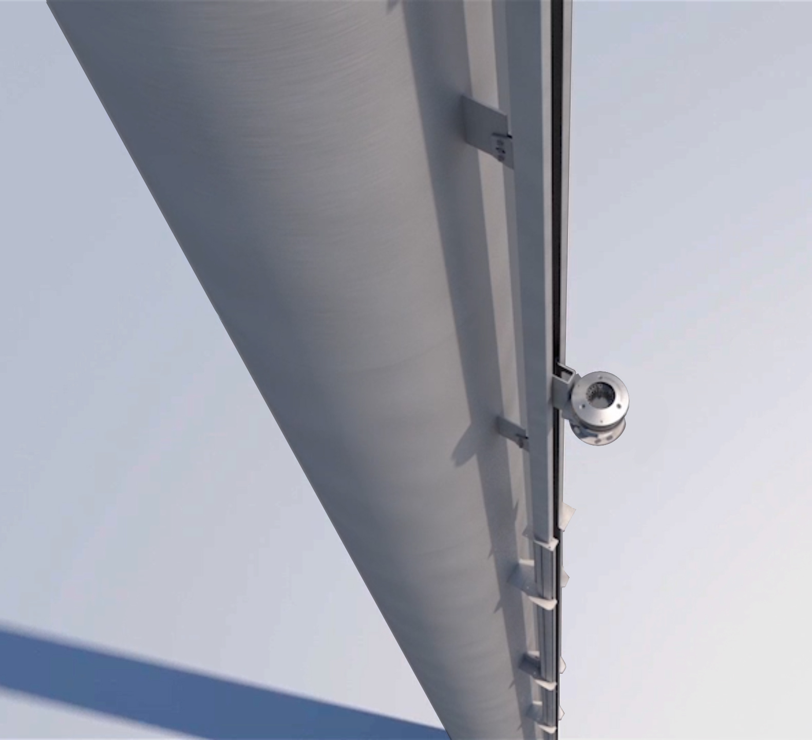 Retractable System for Aircraft Warning Lights, Process Analysers, Spot and Flood Lights, Radio Antennas, Radar